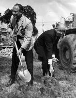 Savannah Mayor J. Curtis Lewis, Jr. and Georgia Governor Lester Maddox break ground for the new Savannah Civic Center